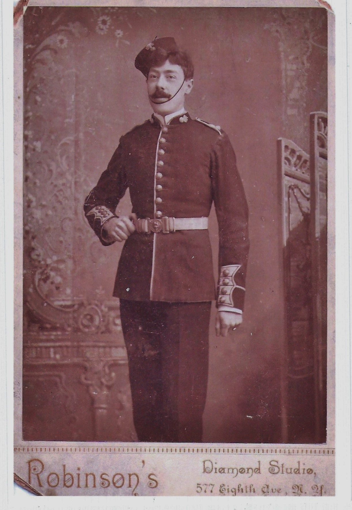 Musician in the US Army, 2nd Infantry, circa 1859